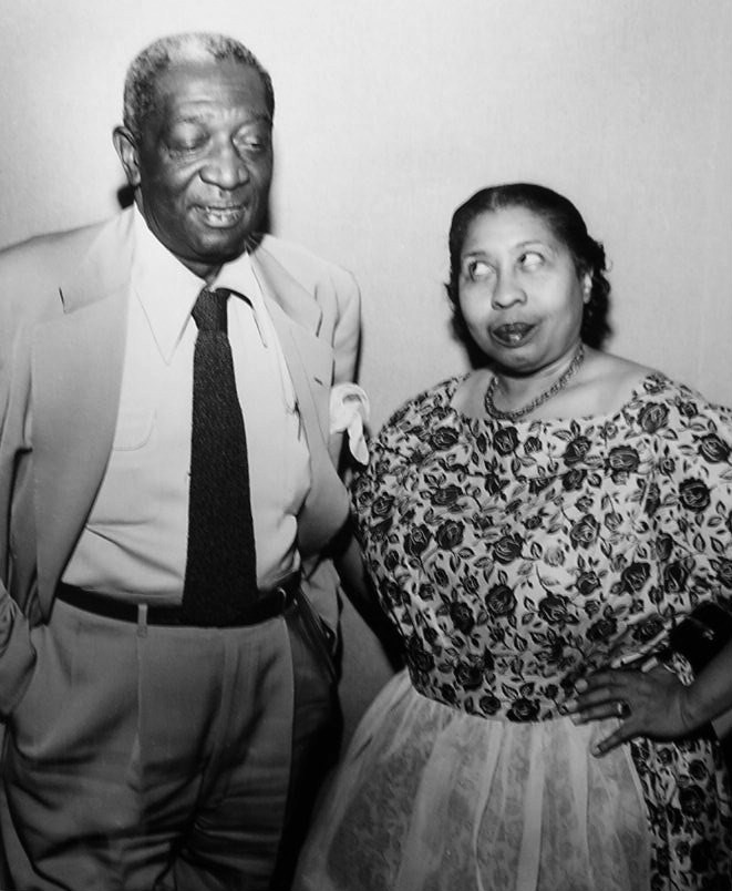 Amanda Randolph and Ernest Whitman on "Beulah" 1953 - 1954. Copyright details This photo was produced prior to 1964 and has no copyright markings nor any photographer's marks. It can be dated by Amanda Randolph's time in the role of Beulah on radio; she assumed the role from her sister, Lillian Randolph, in 1953. The radio show ended in 1954. A copyright search at for Beulah turns up no audio-related material that would be pertinent to the radio program. There is no evidence that a copyright is claimed on this material